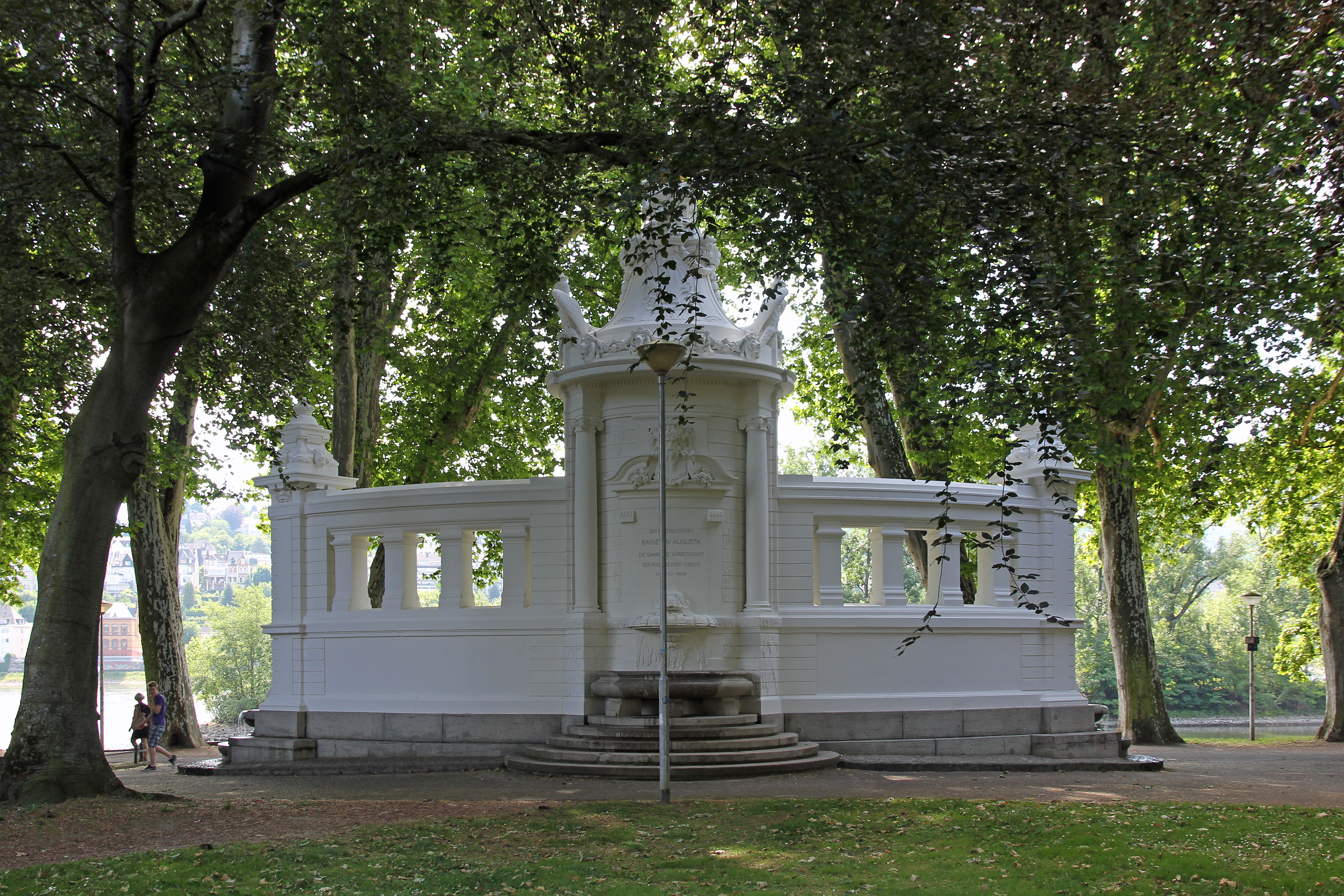 Augusta-Monument in the rhine park of Koblenz